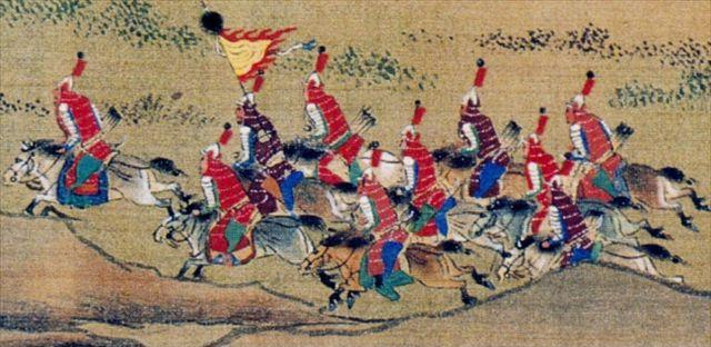 Ming cavalry shown in a scroll